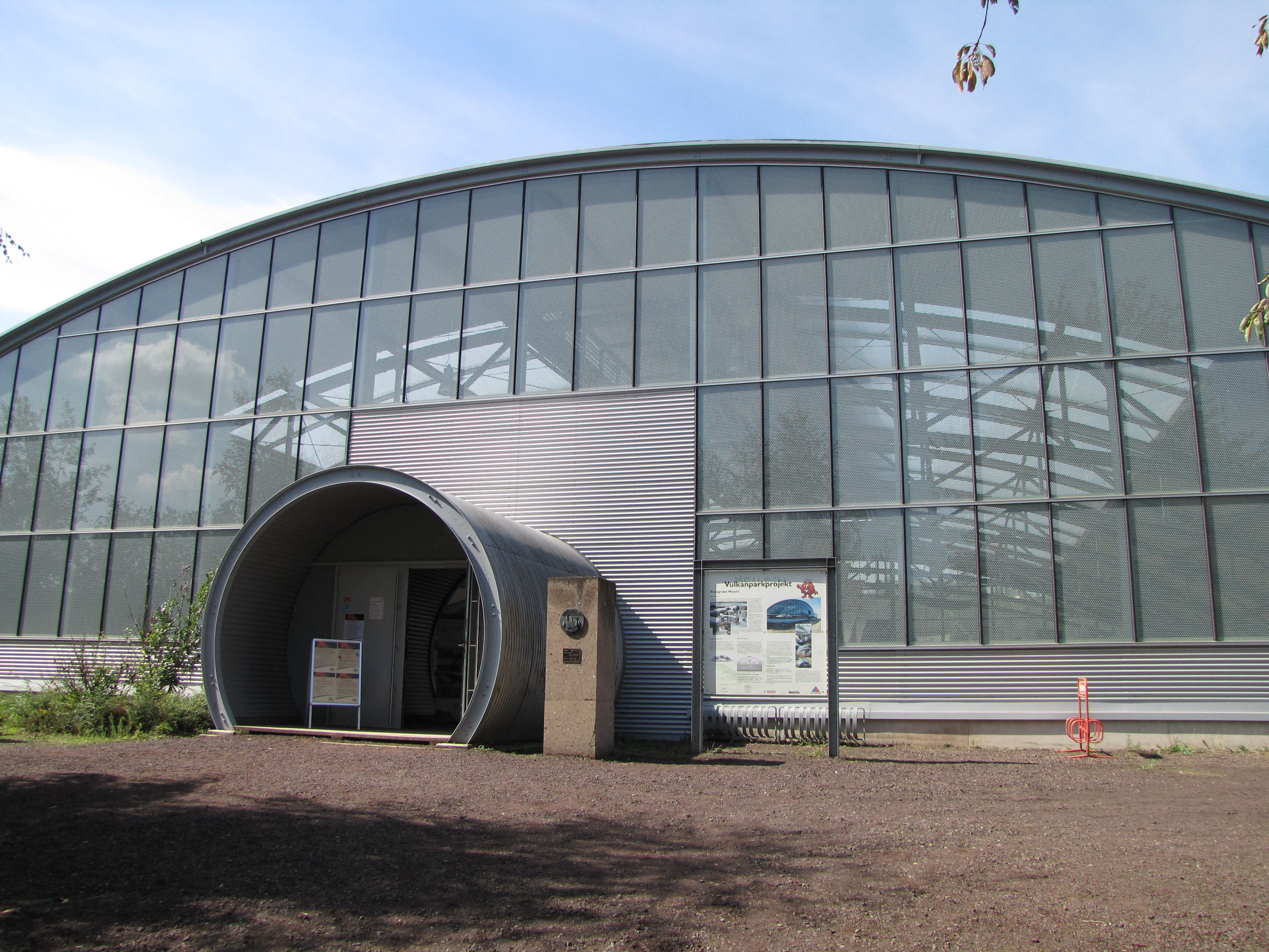 Exterior view of the roman mine nearby Kretz